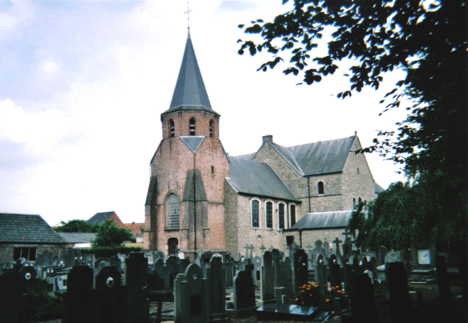 The village church of Nederename, a submunicipality of Oudenaarde, Belgium.